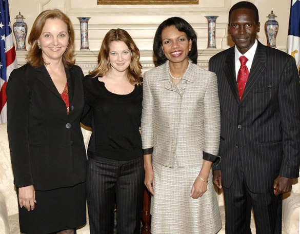 Secretary Rice poses with [left to right]: Executive Director Josette Sheeran, Drew Barrymore, and Paul Tergat of the World Food Programme.